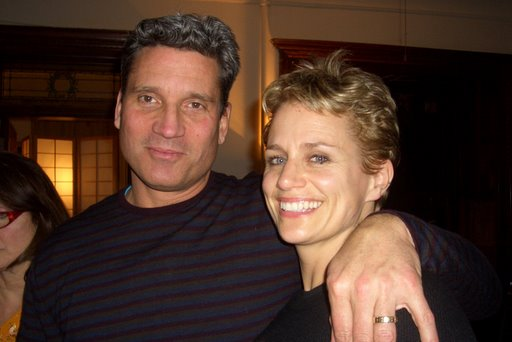 Cady Huffman and Husband Bill Healy